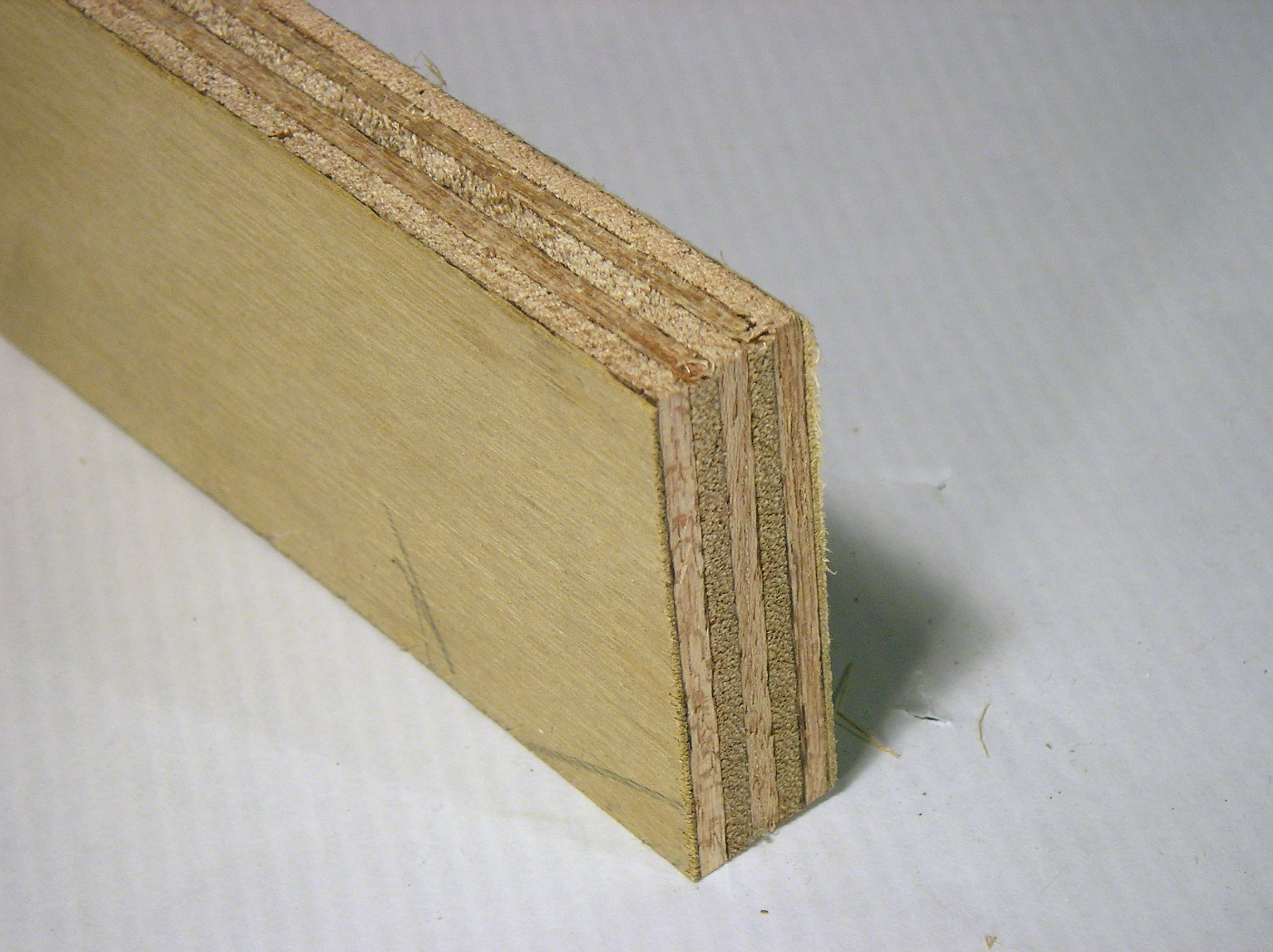 close up picture of plywood with a veneer coat. picture taken by Rotor DB 10:06, 20 January 2007 (UTC)